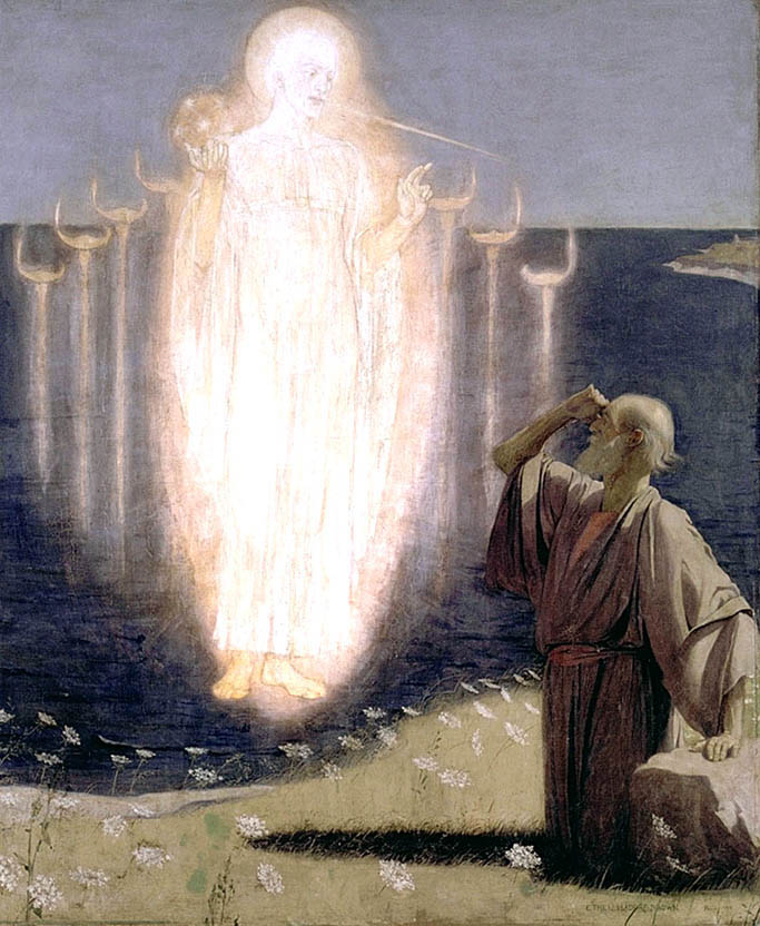 Ethel Isadore Brown by Ethel Isadore Brown in 1898